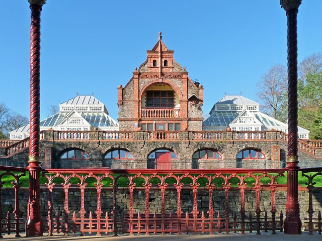 Belle Vue Park Pavilion and Conservatories, Newport. The view from the bandstand. The pavilion and conservatories were opened in 1894 and recently restored and reopened in 2006. They are Grade II listed.